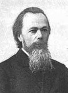 Ukrainian philosopher-positivist Mr. Volodymyr Lesevych (1838-1905)